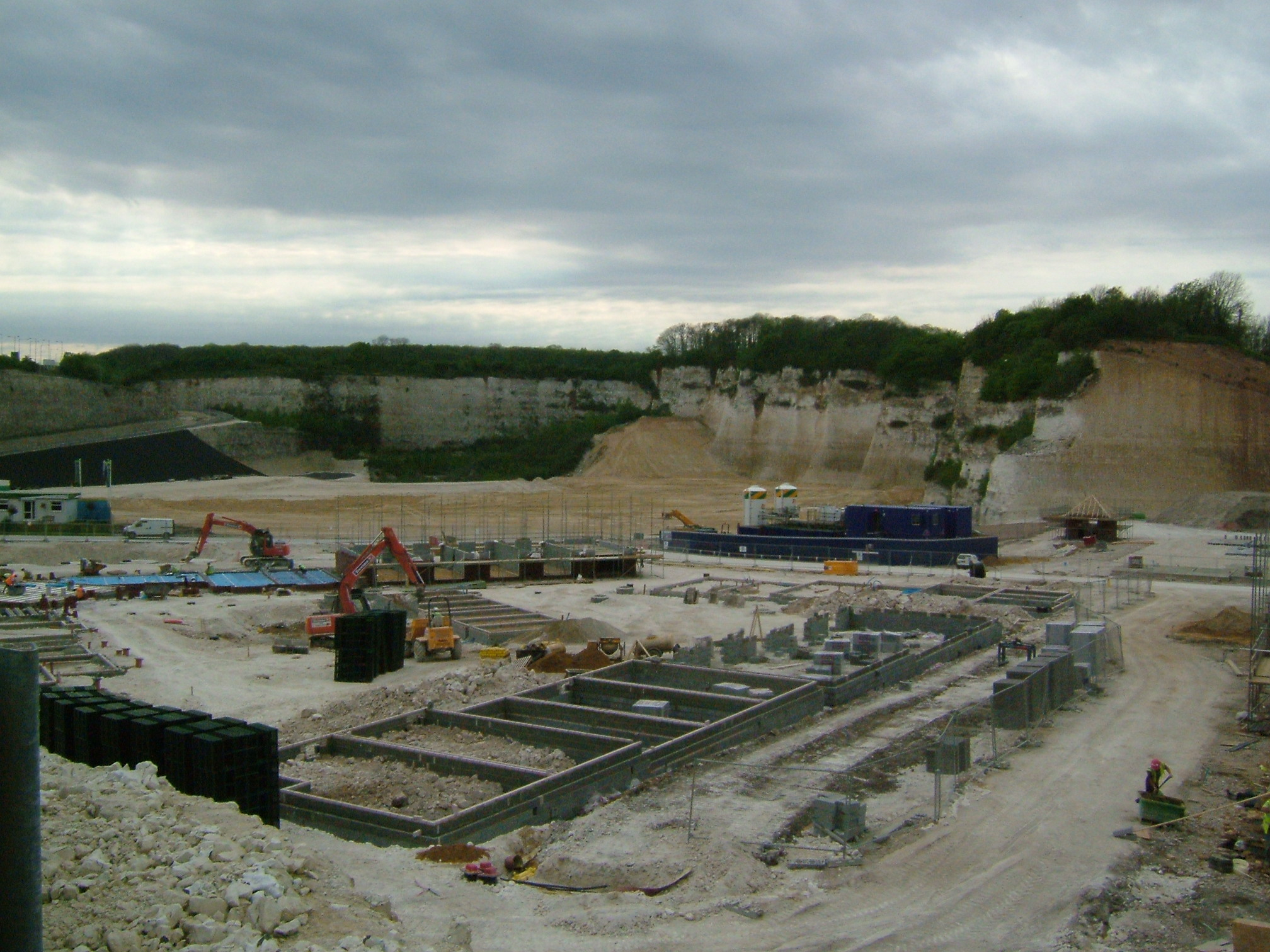 Medway Gate Housing Development, in a old chalk pit in Strood in Kent. You can see the extensive landscaping, the access road to the left,the exposed chalk cliff and its associated strata, and the foundations for the densely packed new homes.